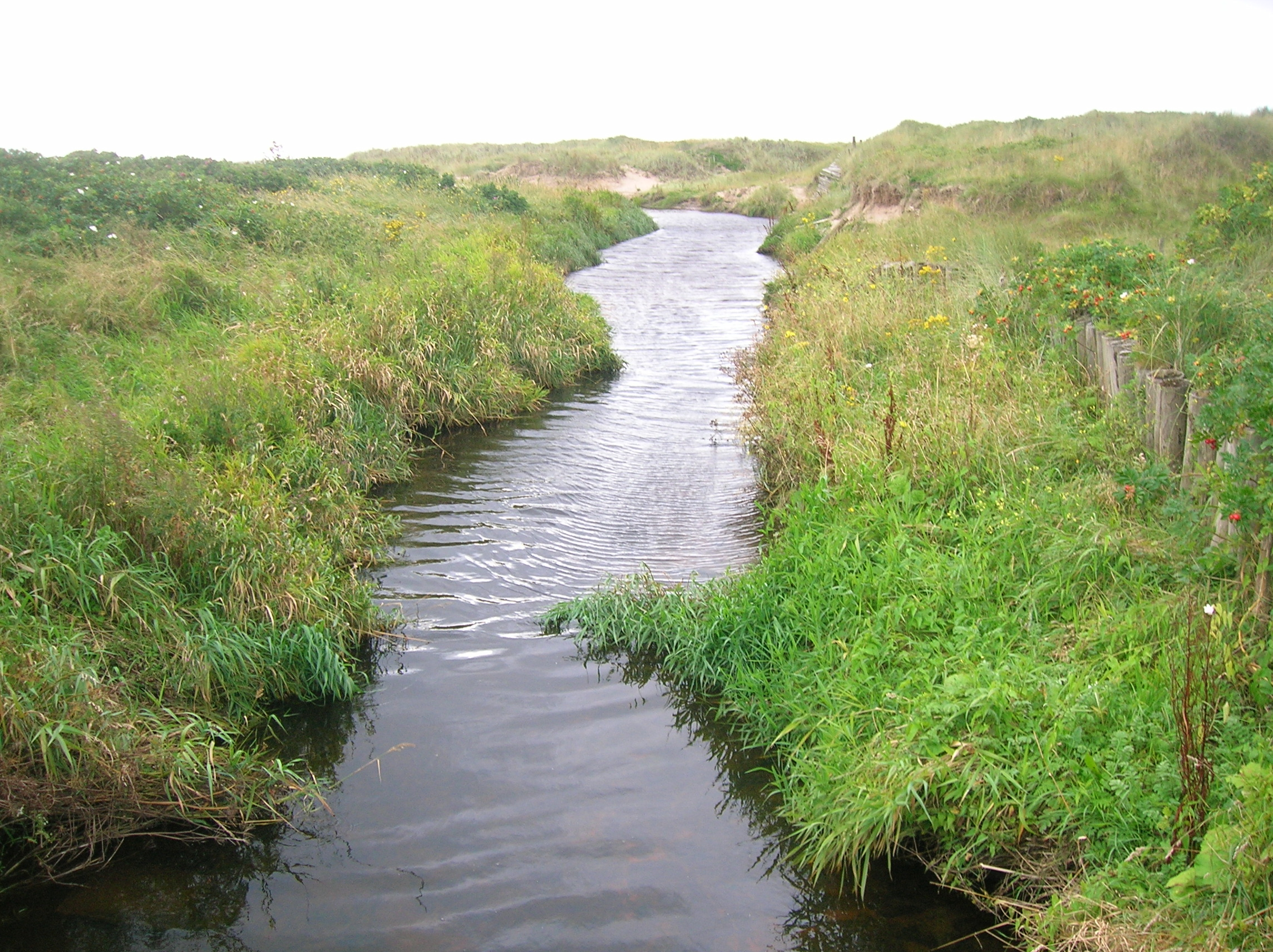 The Stevenston Burn, looking towards the sea, North Ayrshire, Scotland